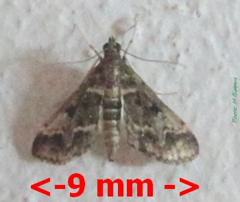 Duponchelia fovealis fovealis moth (Zeller, 1847) width 9mm, picture taken in Réunion, at 300m above sealevel